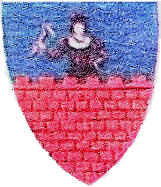 Coat of arms of Mauer, Vienna